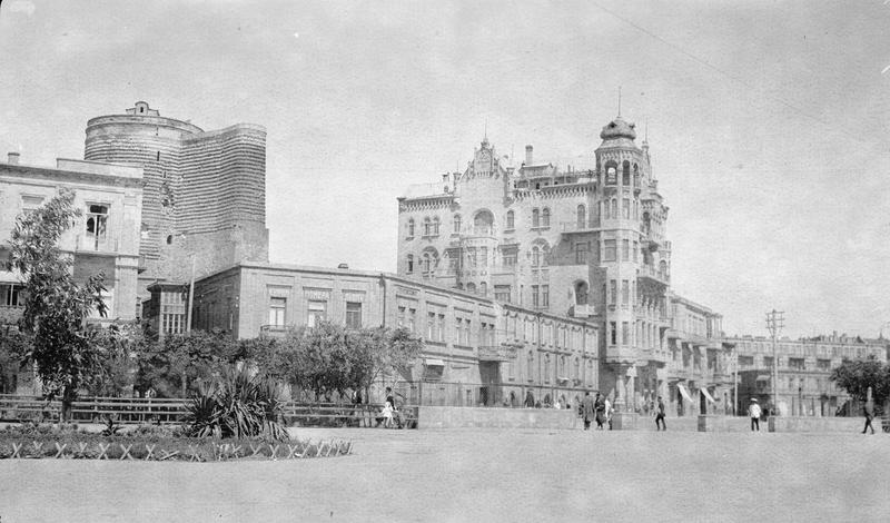 Street scene, Baku.